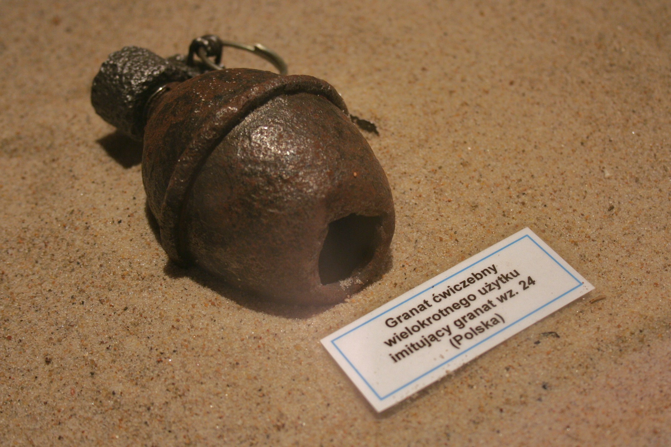 Collections of Museum of Coastal Defence - training hand grenade.